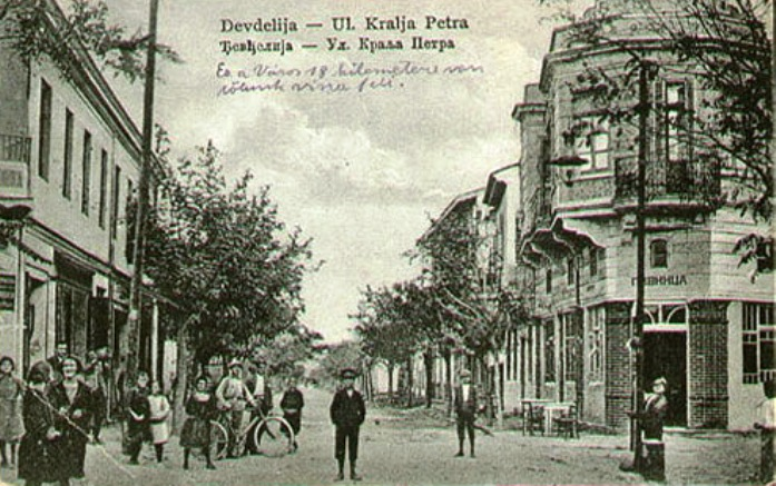 Gevgelija, Macedonia